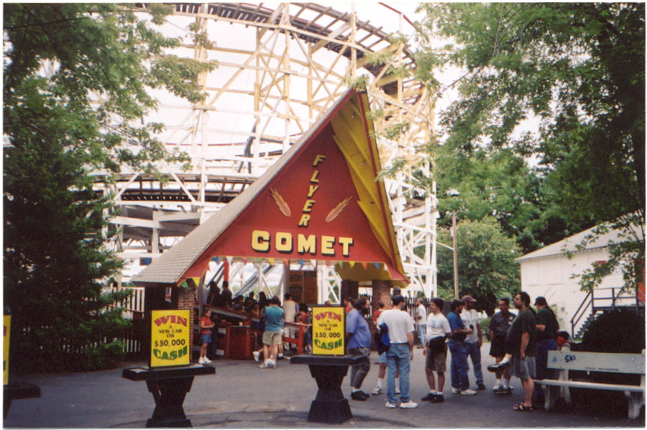 The entrance to the Flyer Comet at Whalom Park, Lunenburg MA. July, 2000